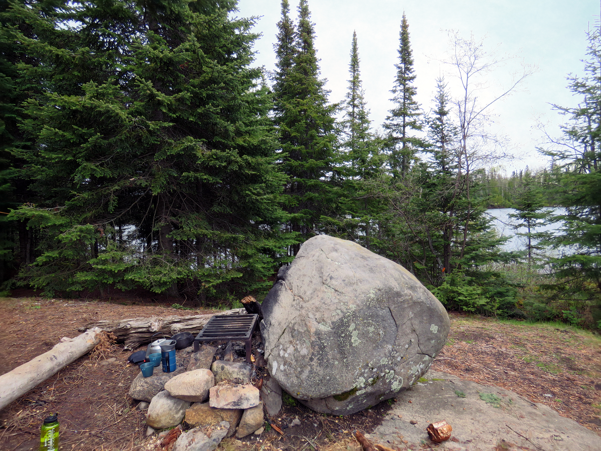 The fire place at an official wilderness camping site in the BWCA, Mn, USA.